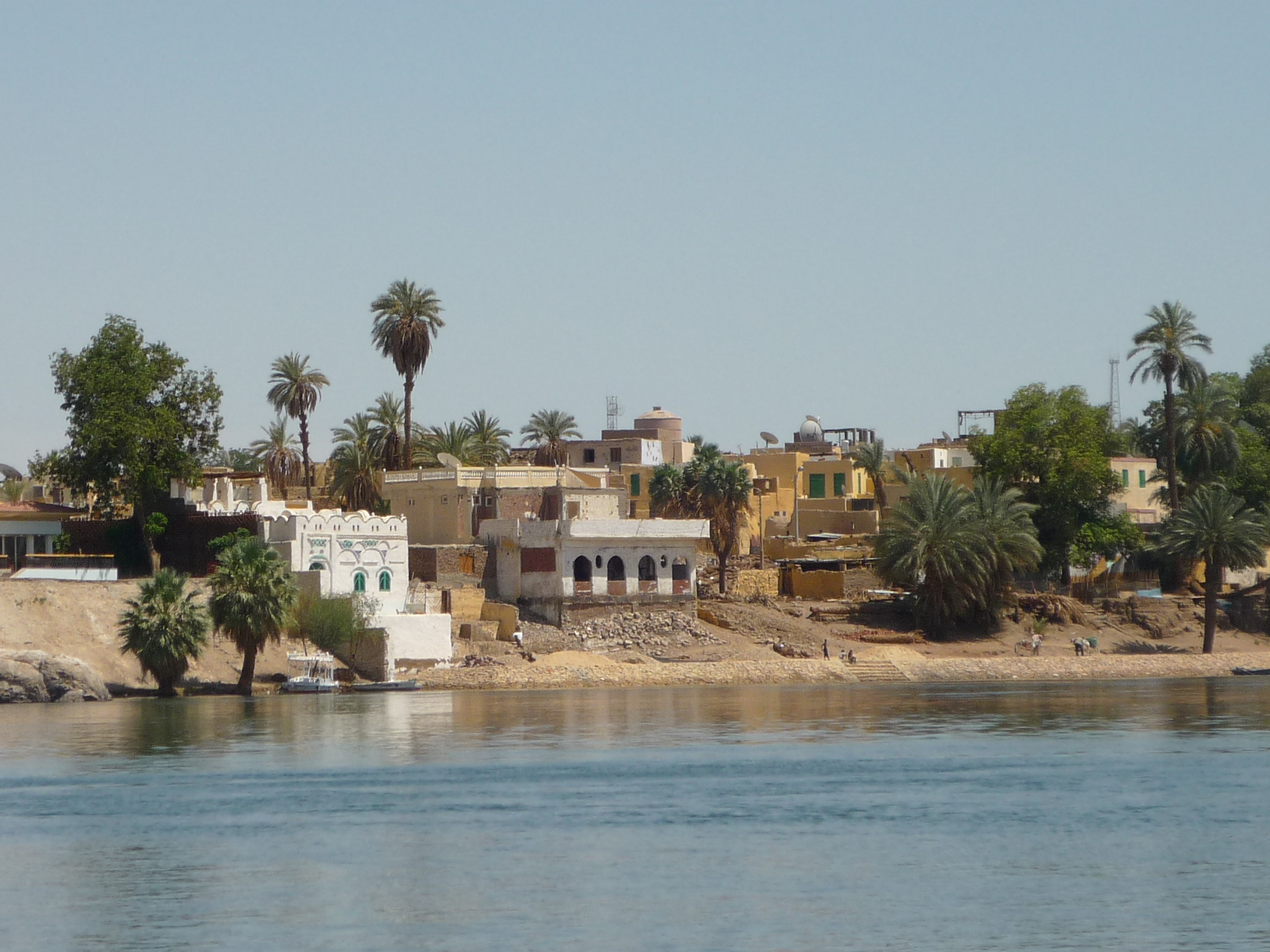 Nubian village on Elephantine Island, Aswan, Egypt